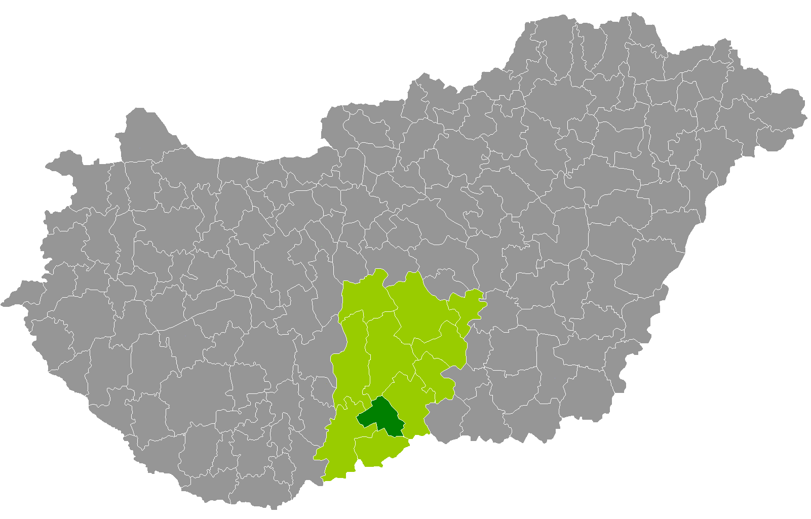 Location of Jánoshalma District, Bács-Kiskun, Hungary